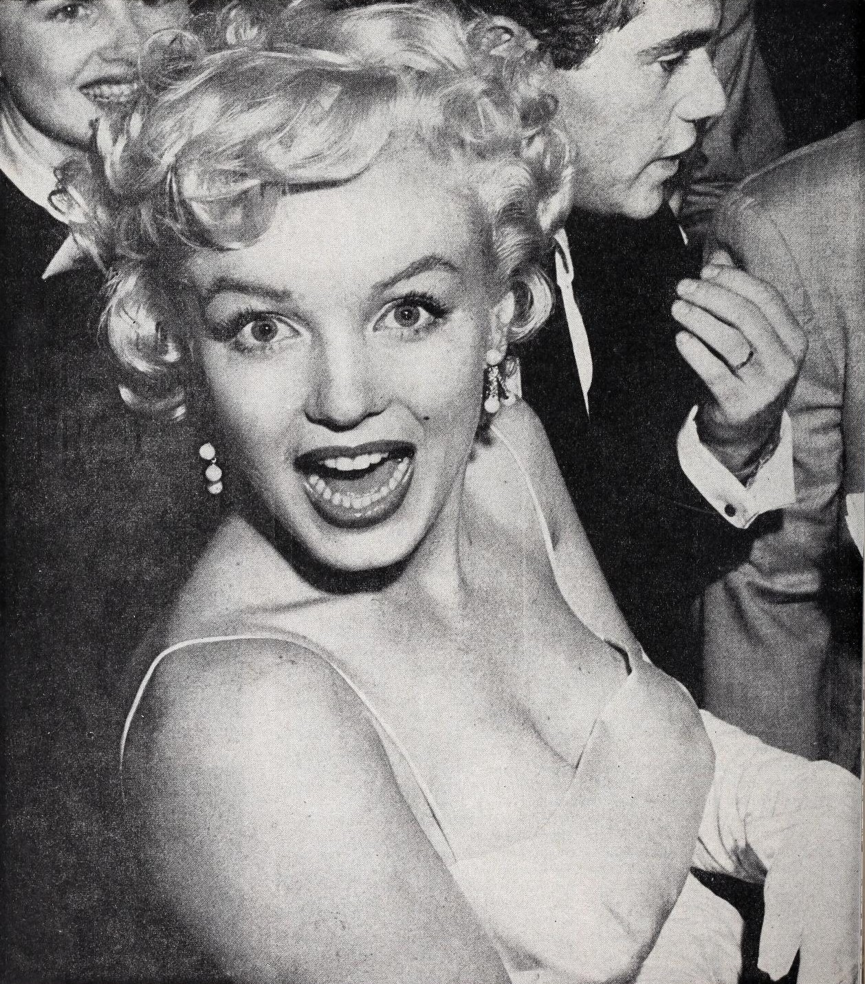 Marilyn Monroe at a party, 1955